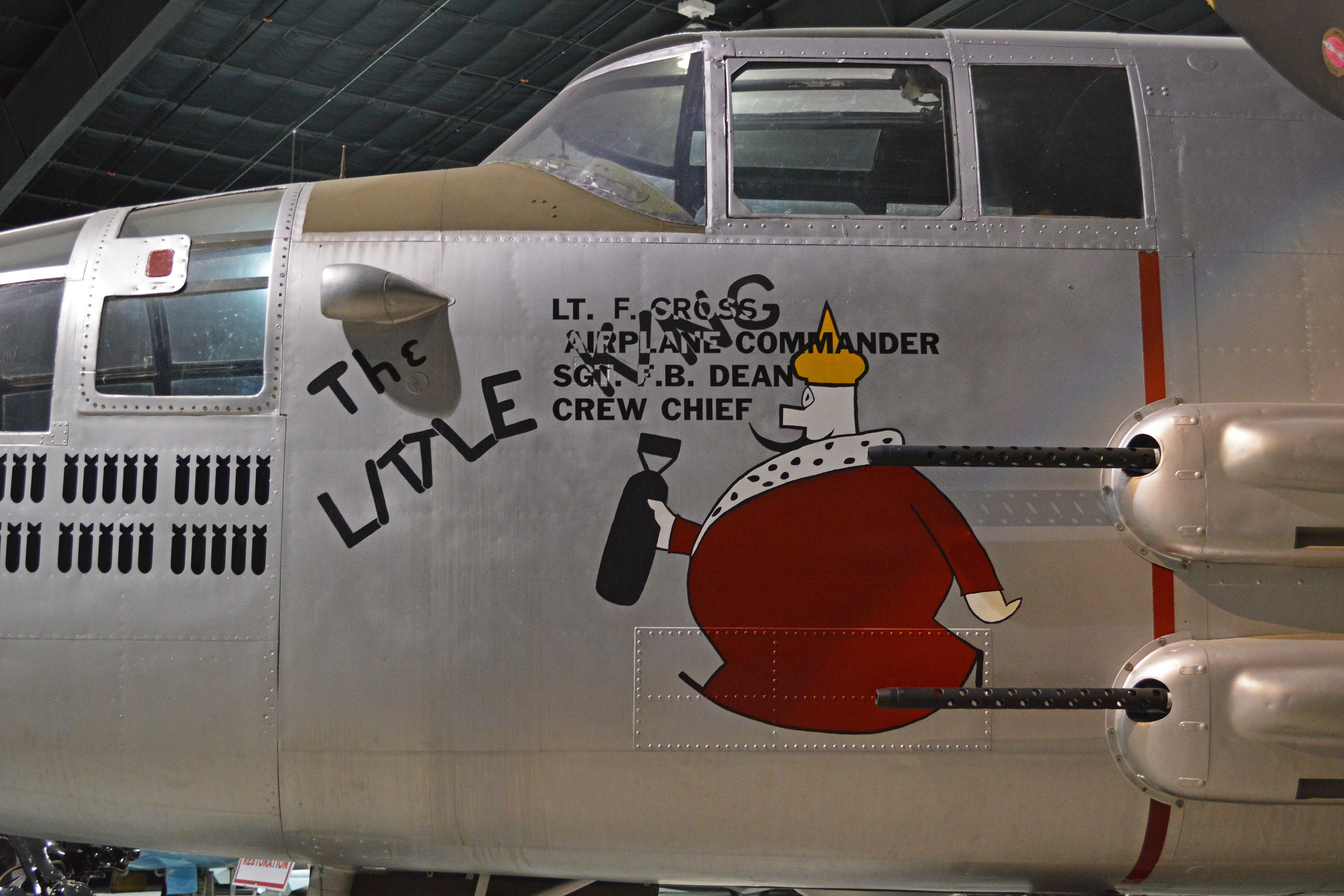 Nose art on B-25J Mitchell 44-86872, c/n 108-47626. On display in the WW2 Hangar at Warner Robins Museum of Aviation. Georgia, USA. 18-4-2013